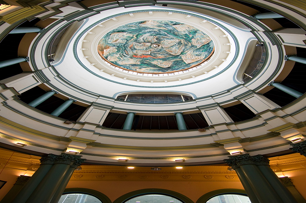 Internal image of Mercat de les Flors